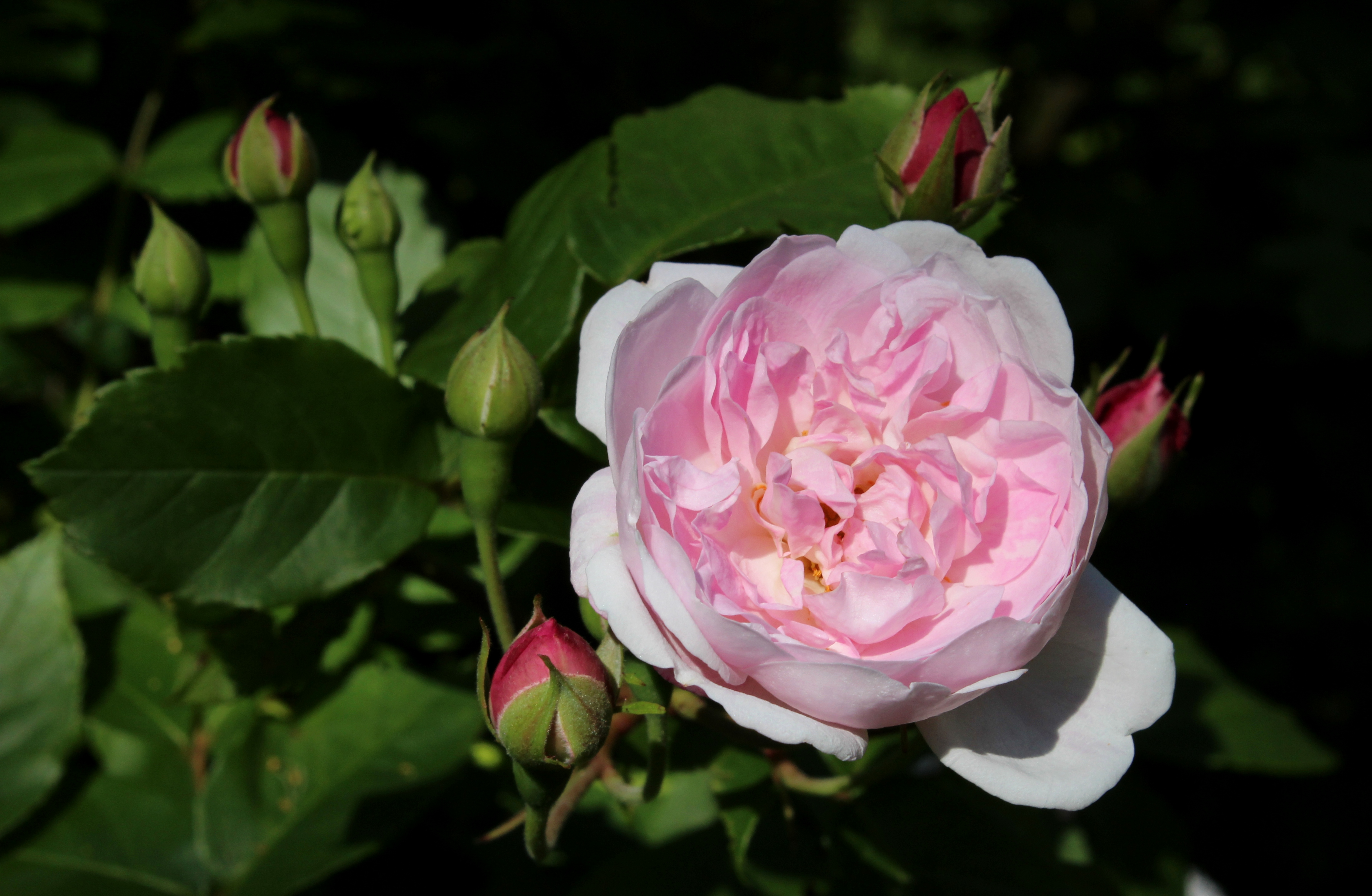 Rosa 'Blush Noisette' in the Rosarium Baden in the Doblhoffpark in Baden bei Wien. Identified by sign.